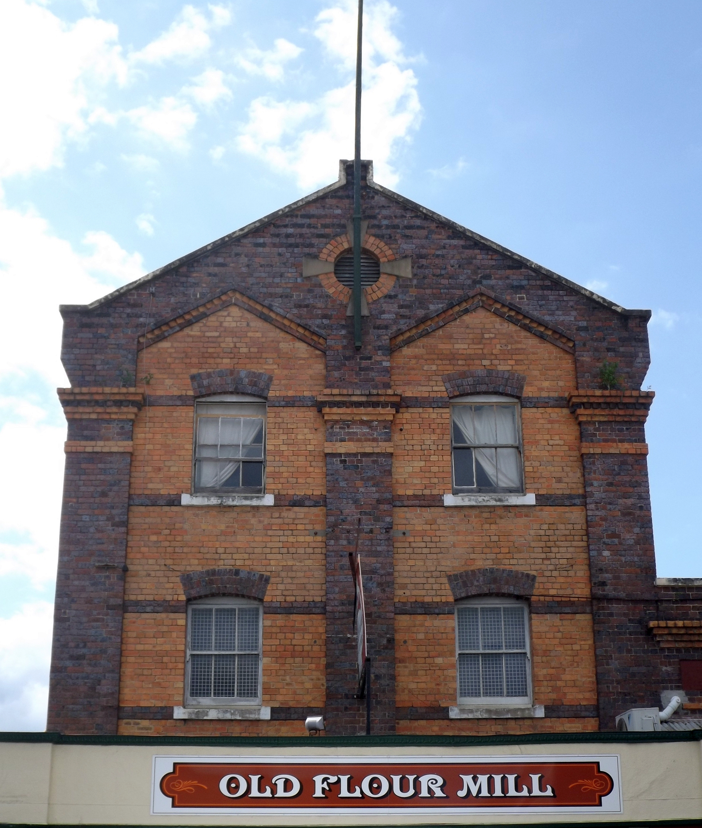 Photo of the upper floors of the Flour Mill in Ipswich, Queensland, Australia.